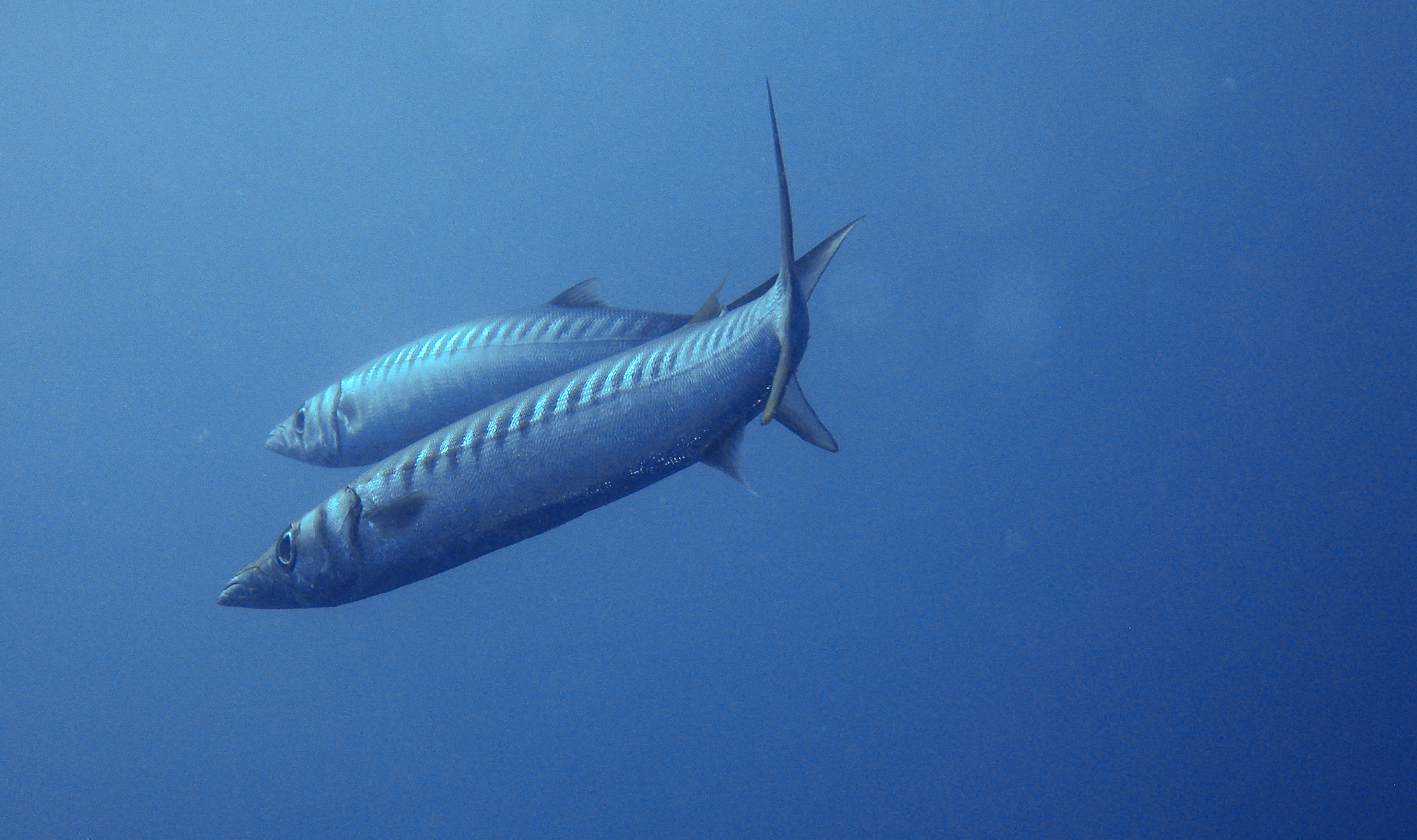 Sphyraena viridensis (Cuvier, 1829), in Illes Medes (Spain).